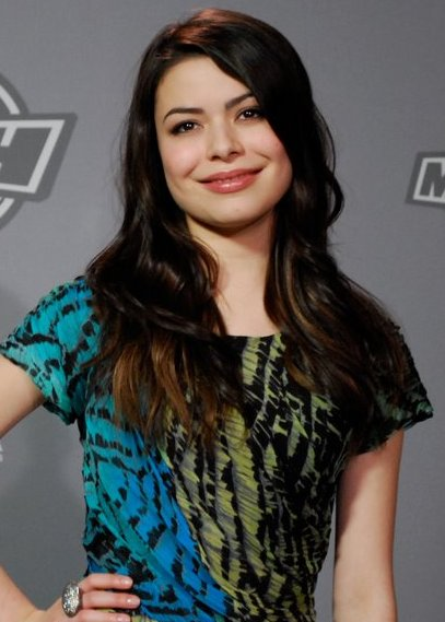 Miranda Cosgrove at the 2010 Much Music Video Awards.